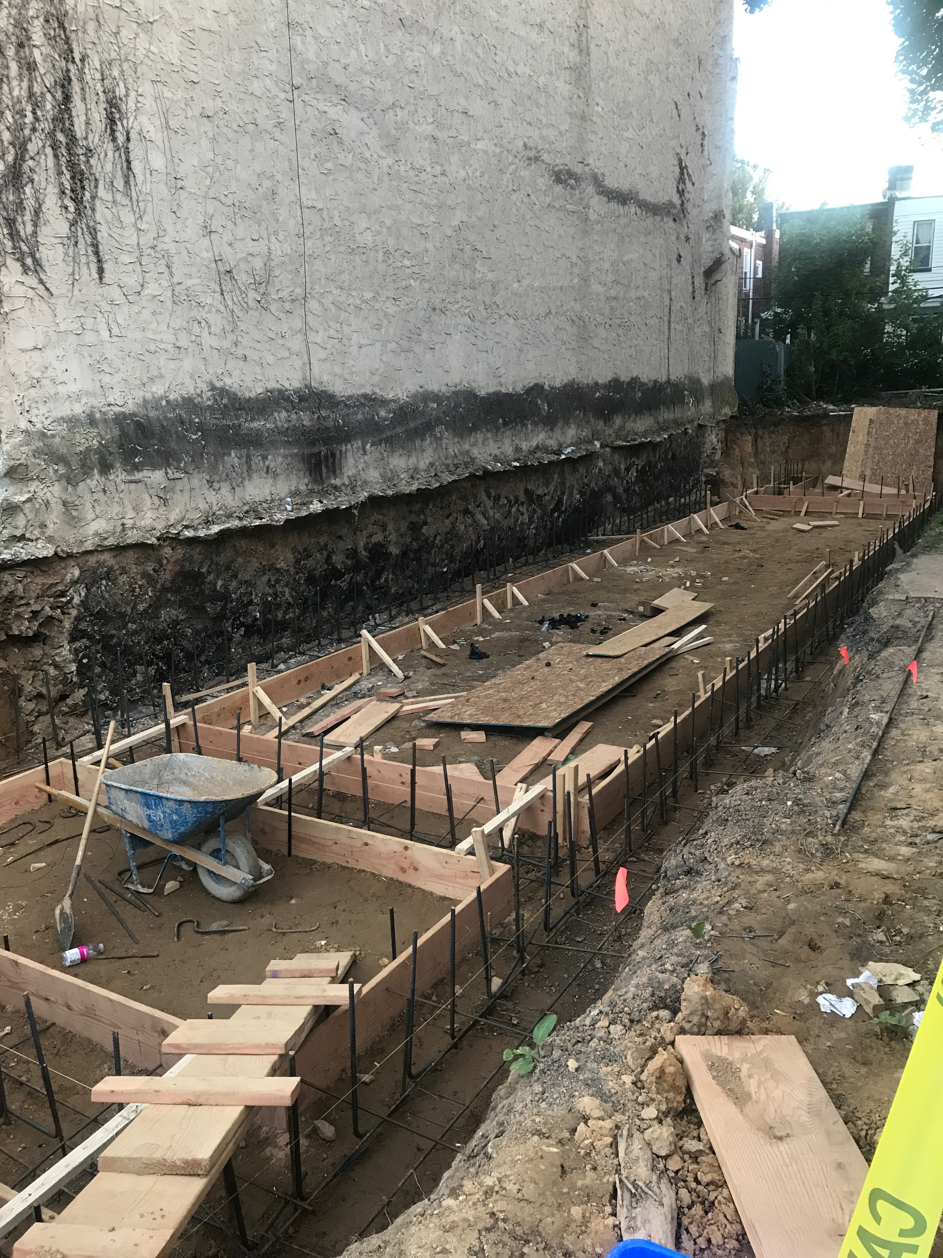 Forms set up for concrete slab to be poured